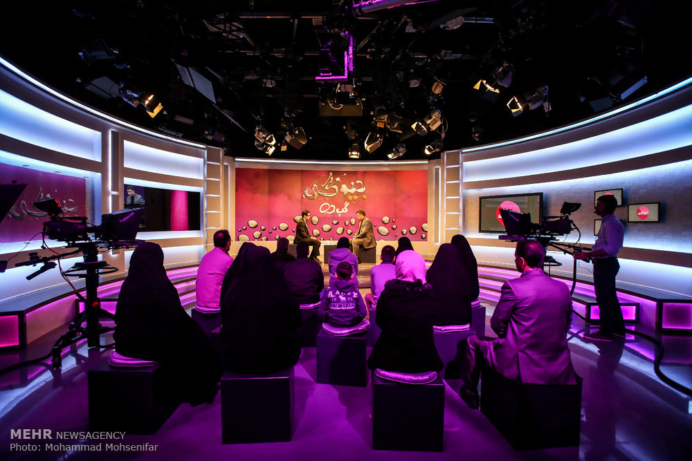 جیوگی 2